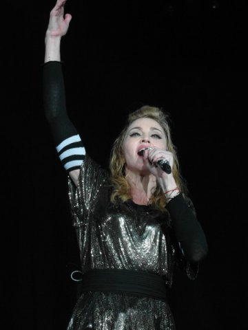 Madonna concert in Barcelona